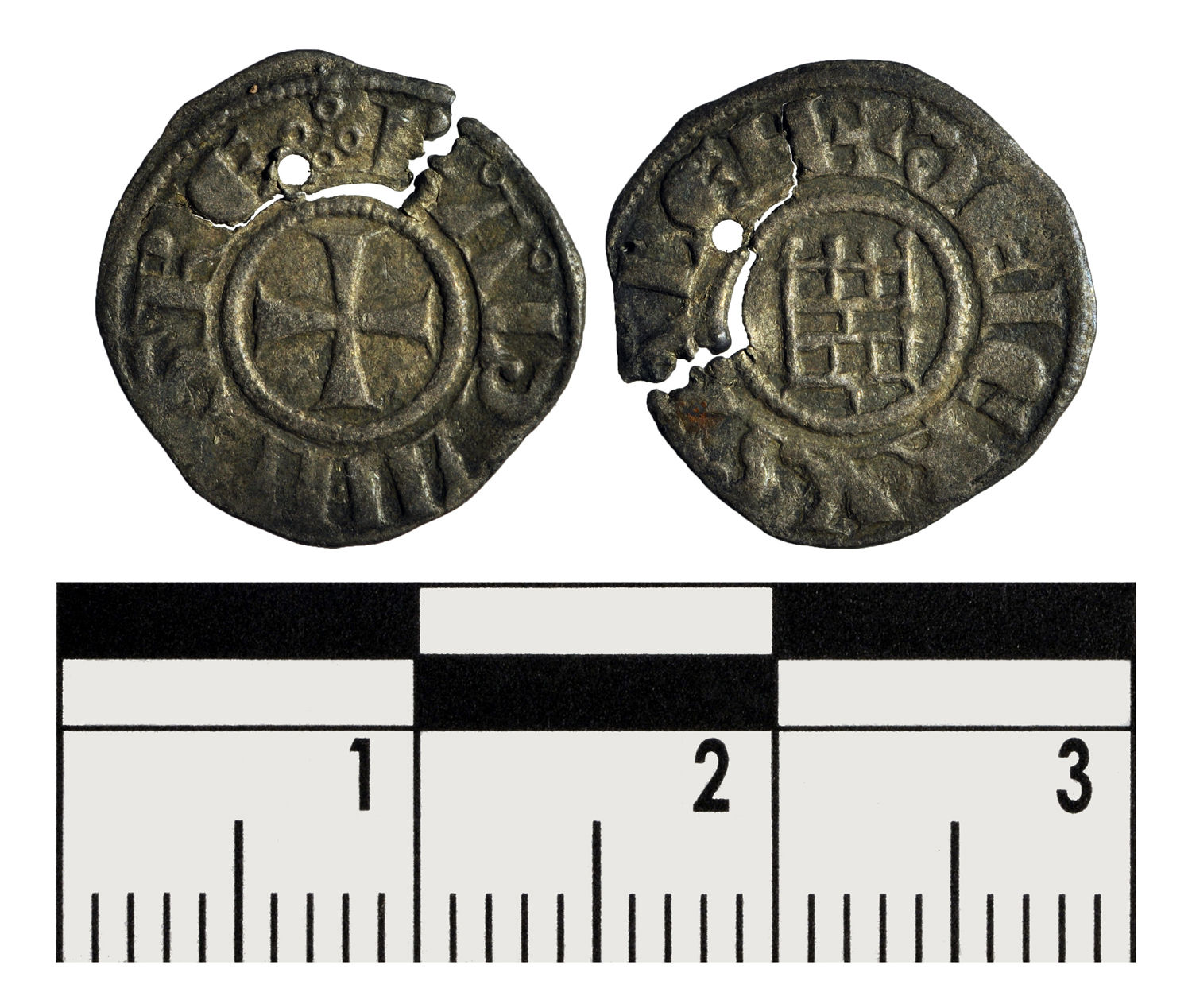 Cracked billon coinage issued during the reign of Baldwin III (1143-1163). The coin depicts the Tower of David on the reverse.